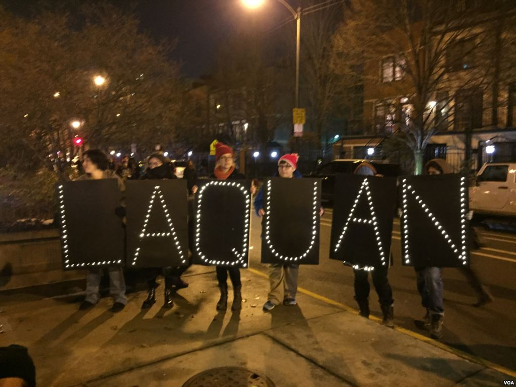 LAQUAN McDonald Chicago memorial from protestors from VOA